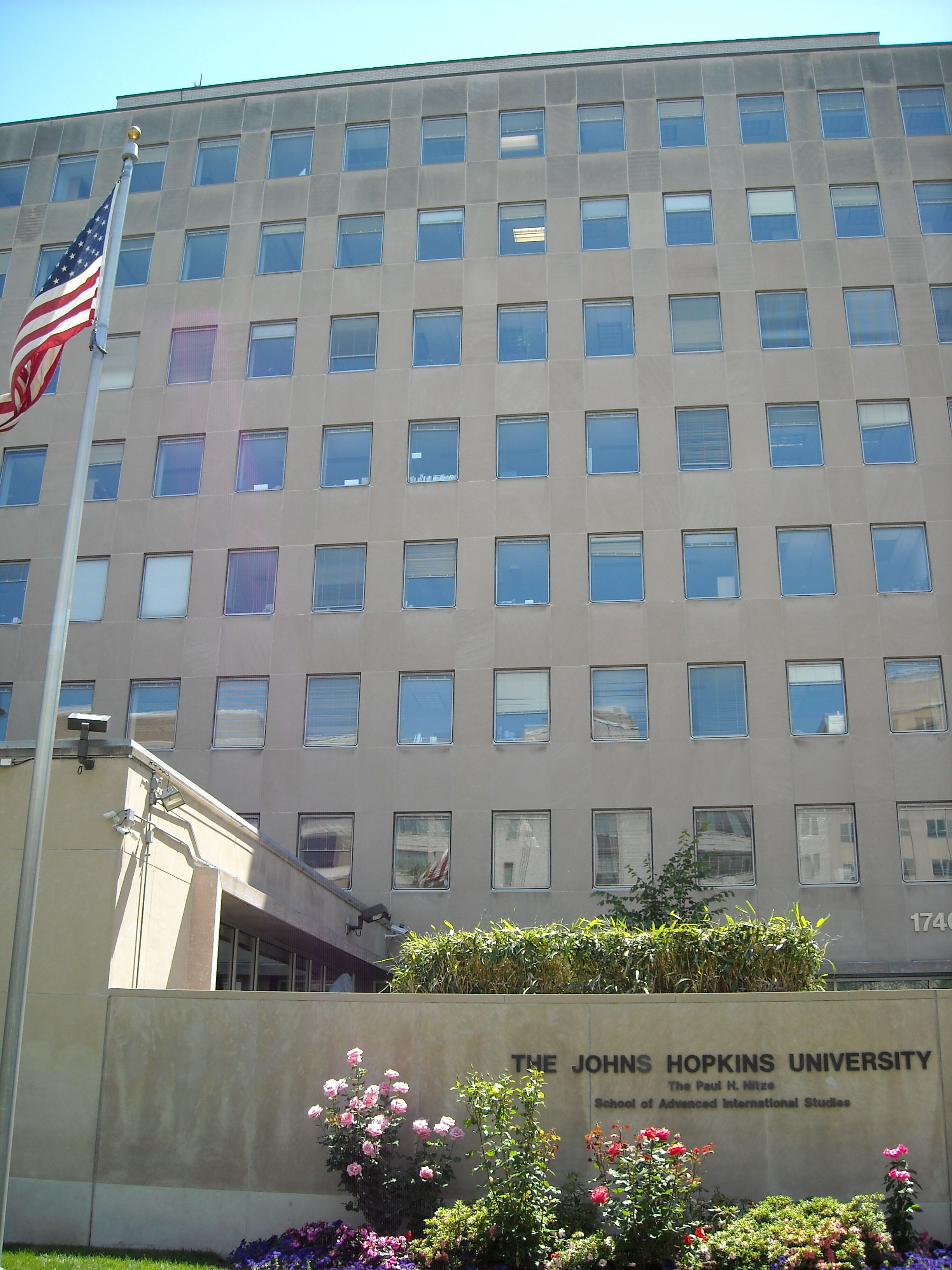 Johns Hopkins University, Washington, D.C. campus